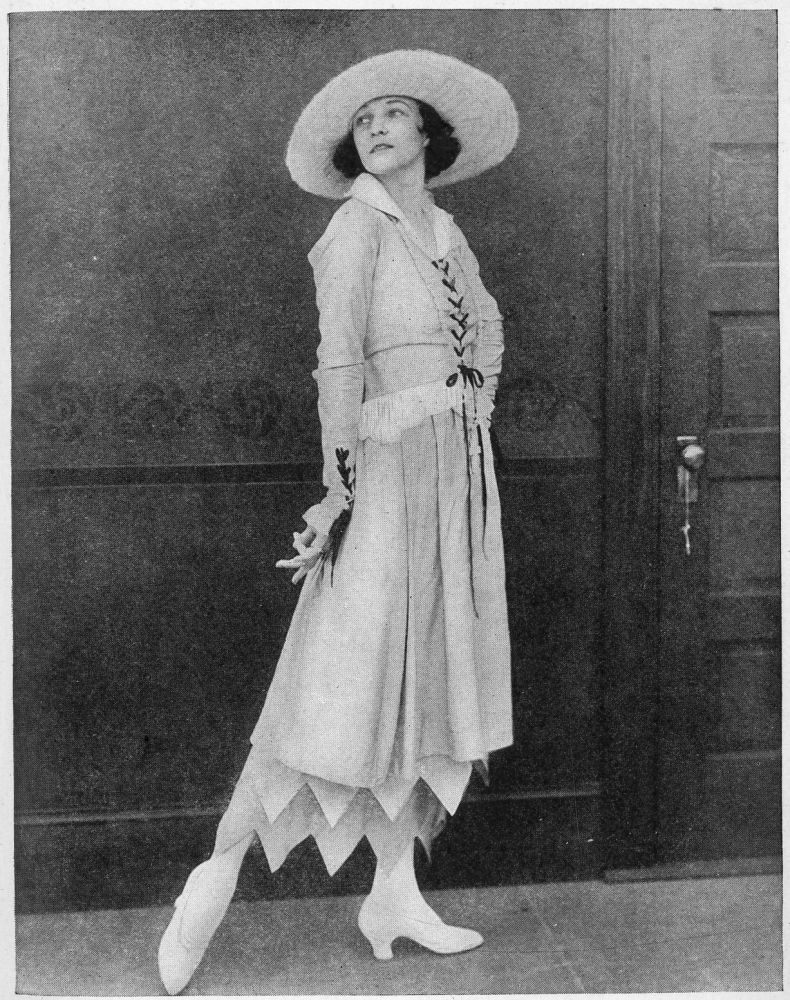 Irene Castle (Mrs. Vernon Castle) in Summer Afternoon Costume, from Woman as Decoration by Emily Burbank, New York, Dodd, Mead and Company, 1917. "Mrs. Vernon Castle who set to-day's fashion in outline of costume and short hair for the young woman of America. For this reason and because Mrs. Castle has form to a superlative degree (correct carriage of the body) and the clothes sense (knowledge of what she can wear and how to wear it) we have selected her to illustrate several types of costumes, characteristic of 1916 and 1917. "Another reason for asking Mrs. Castle to illustrate our text is, that what Mrs. Castle's professional dancing has done to develop and perfect her natural instinct for line, the normal exercise of going about one's tasks and diversions can do for any young woman, provided she keep in mind correct carriage of body when in action or repose."